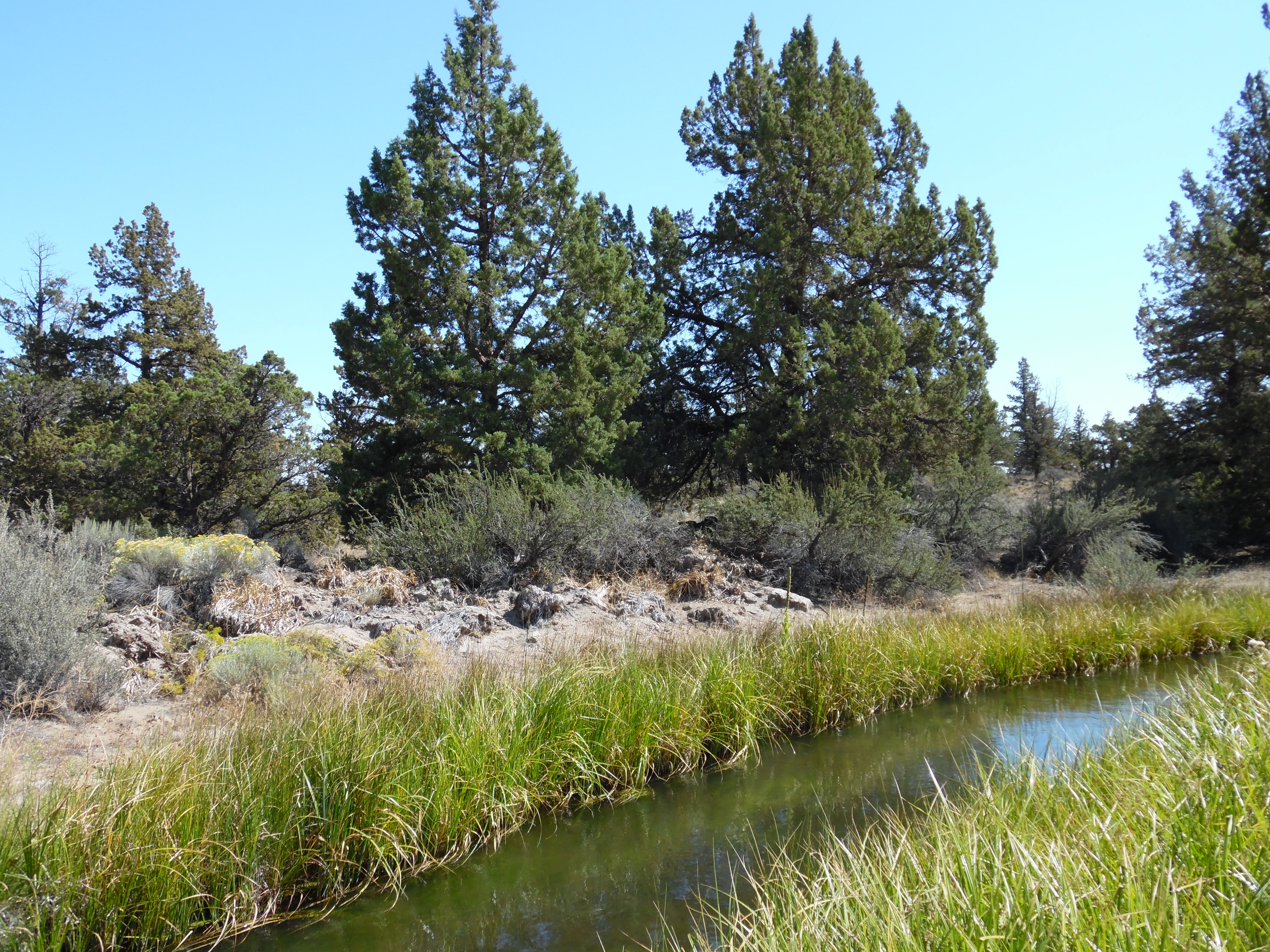 Irrigation canal flowing through Redmond-Bend Juniper State Scenic Corridor along U.S. Route 97 between Bend and Redmond in central Oregon. Photo taken near geo-location: 44.1858, -121.2425.